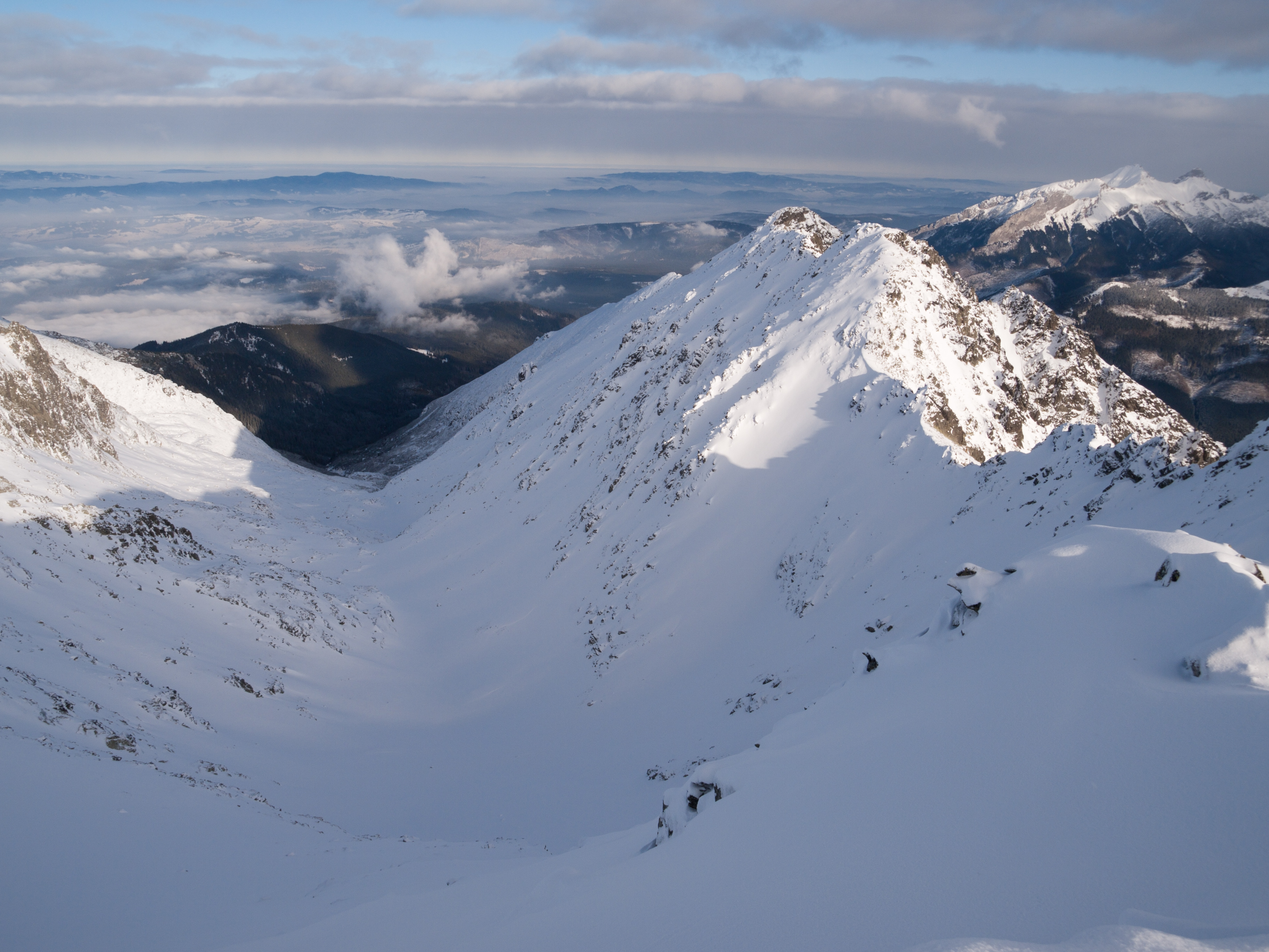 Waksmundzka Valley and the ridge of Wołoszyn – view from Mały Wołoszyn.